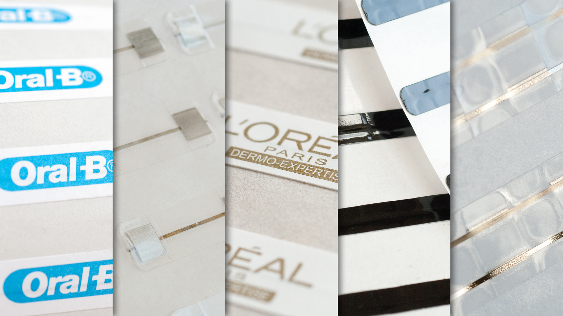 Magnetic Tag. Size: about 7x0.5 cm^2 Photographer: Anton